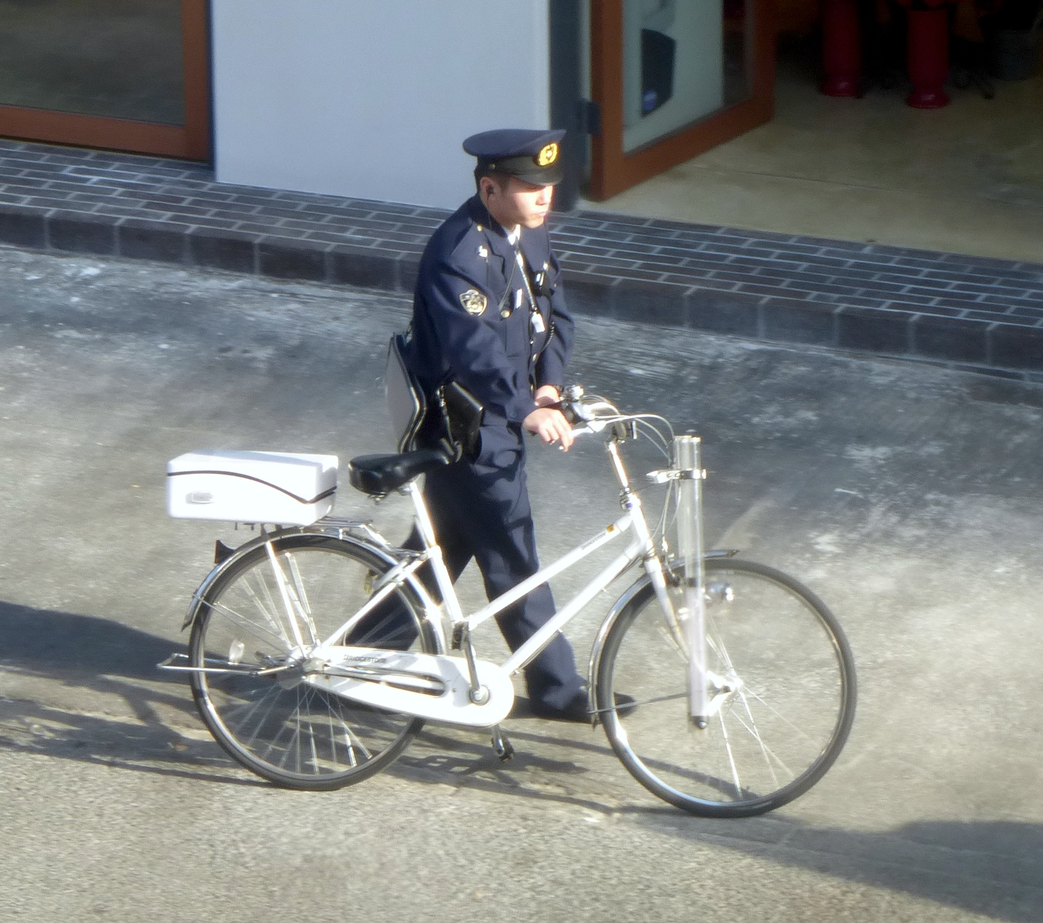 Male police officer pushing his bicycle in the Shibuya area (Japan)